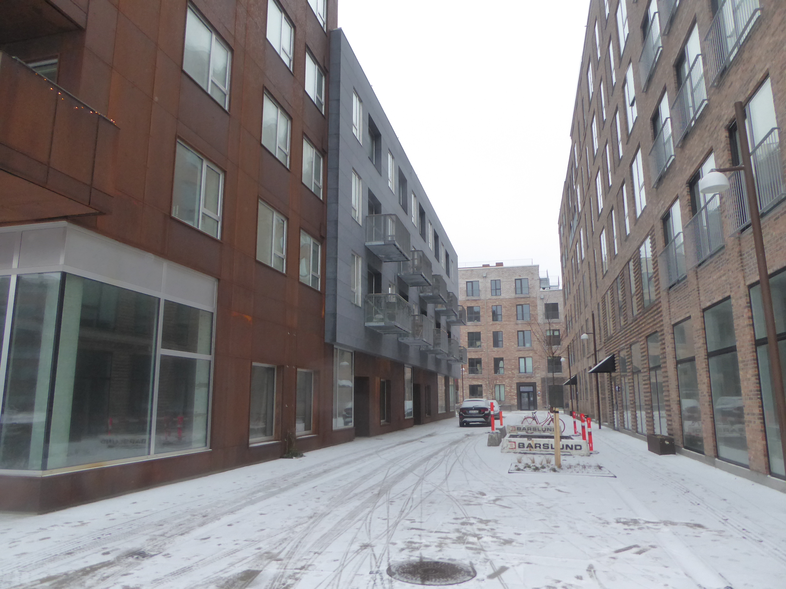 The street Travemündegade with snow in Nordhavn in Copenhagen.